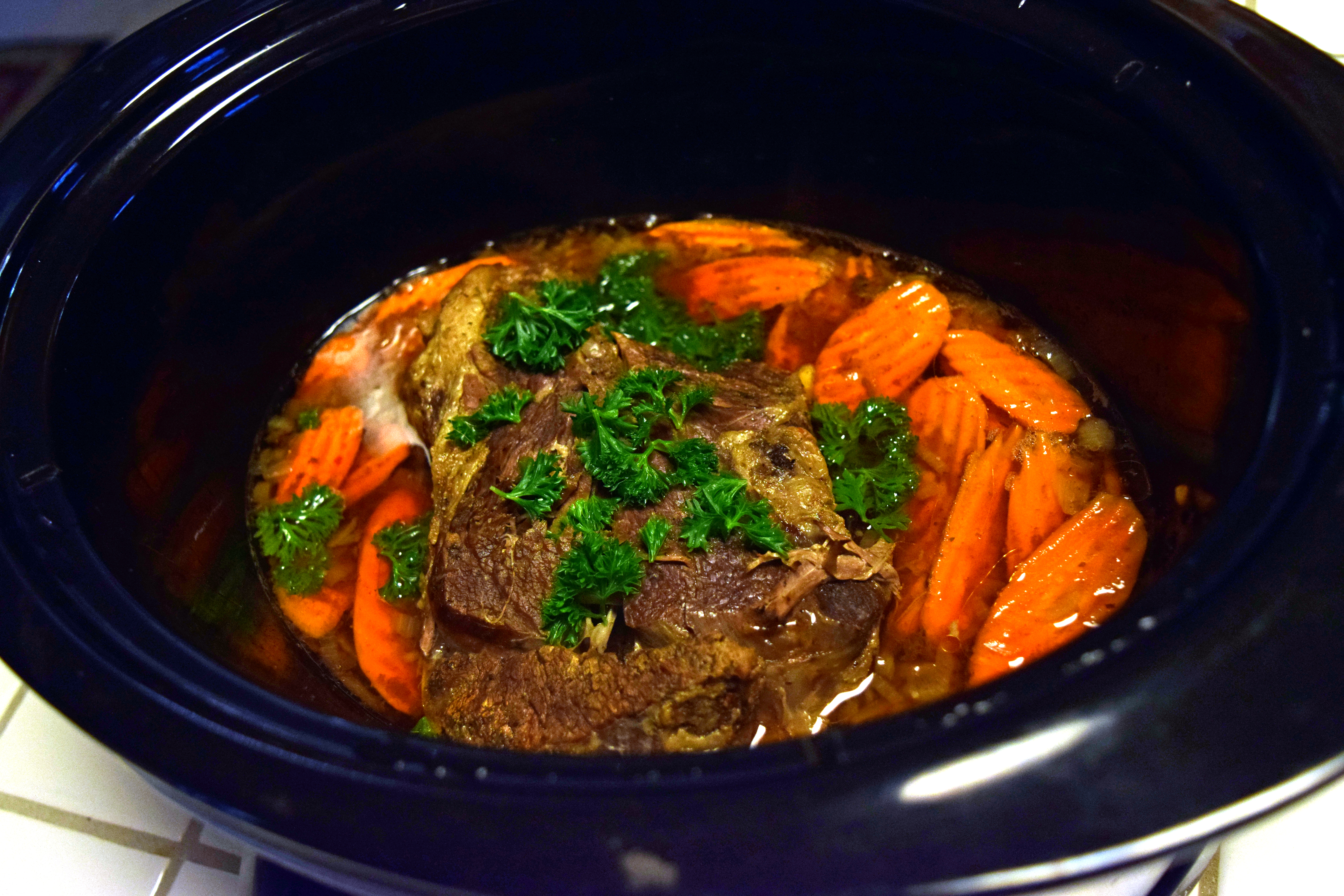 Pot roast made from Chuck roast cooking in a crock pot